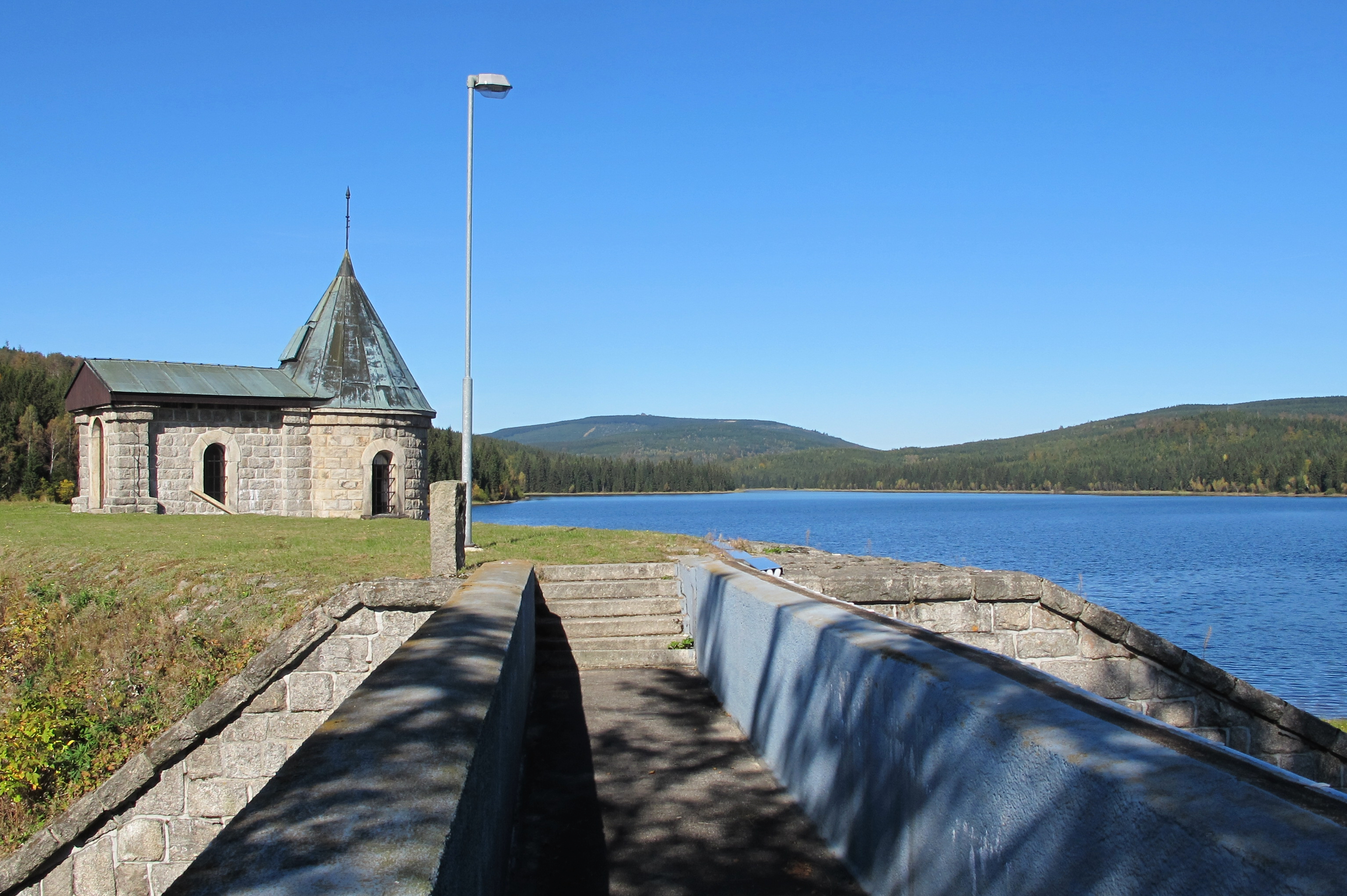 Souš Reservoir, Jablonec nad Nisou District in Czech Republic